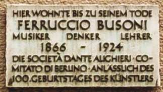 F. Busoni's commemorative plaque in: 10777 Berlin, Viktoria-Luise-Platz 11